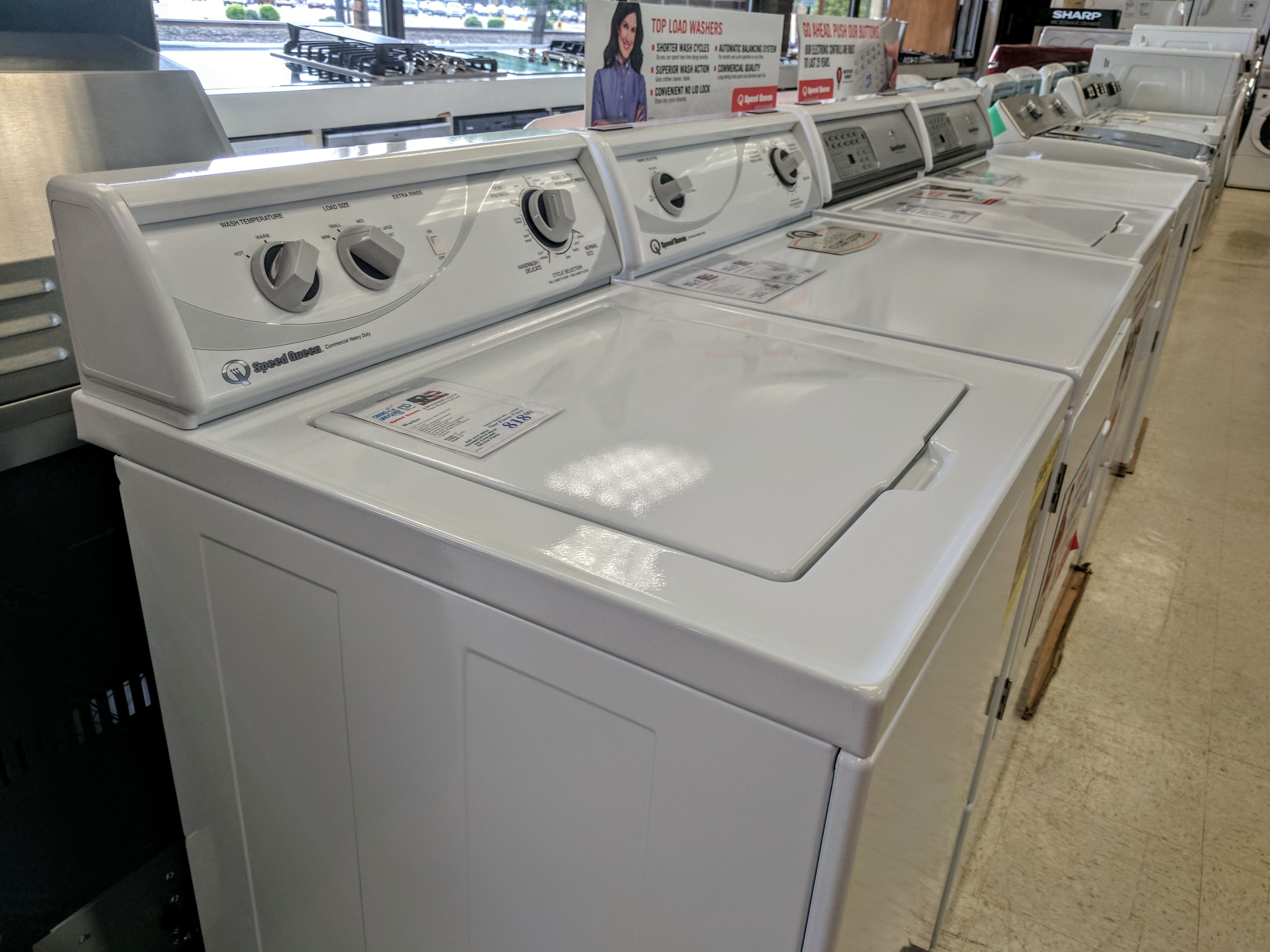 Speed Queen washer and dryer models on the floor of an appliance store.